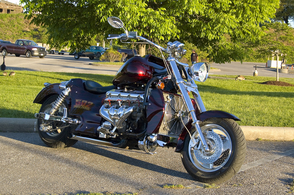 Boss Hoss Spotted at the public dock. Yes...that is an 8 cylinder motor.